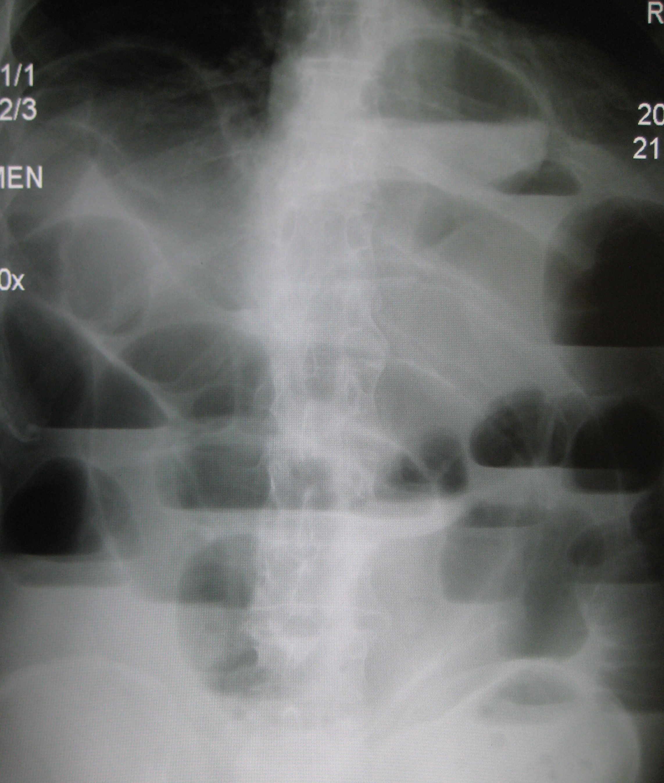 An upright Xray demonstrating a small bowel obstruction ( note multiple air fluid levels )